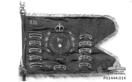 THE REGIMENTAL COLOURS (GUIDON) OF THE 13TH AUSTRALIAN LIGHT HORSE REGIMENT. THE COLOURS BEAR THE NAMES AND DATES OF FAMOUS BATTLE GROUNDS WHERE THE REGIMENT FOUGHT.